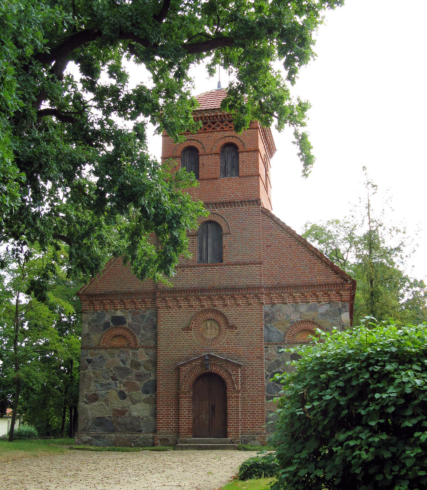 Church in Massow, disctrict Müritz, Mecklenburg-Vorpommern, Germany